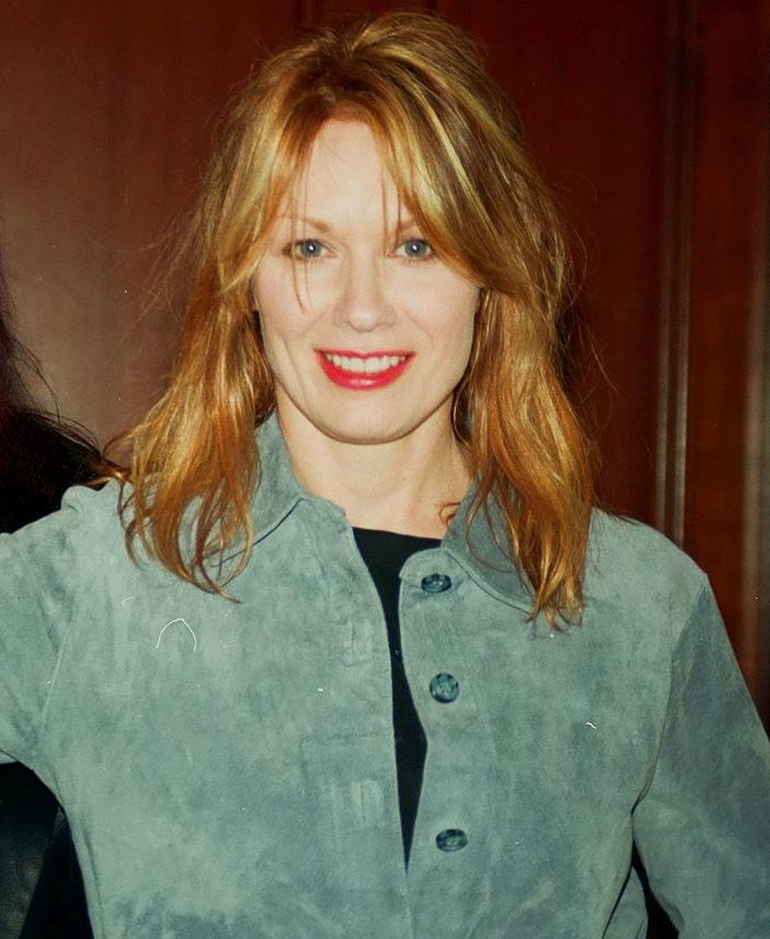 Nancy Wilson in 1998